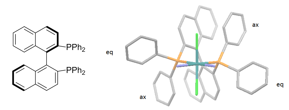 (R)-BINAP Ligand and Complex